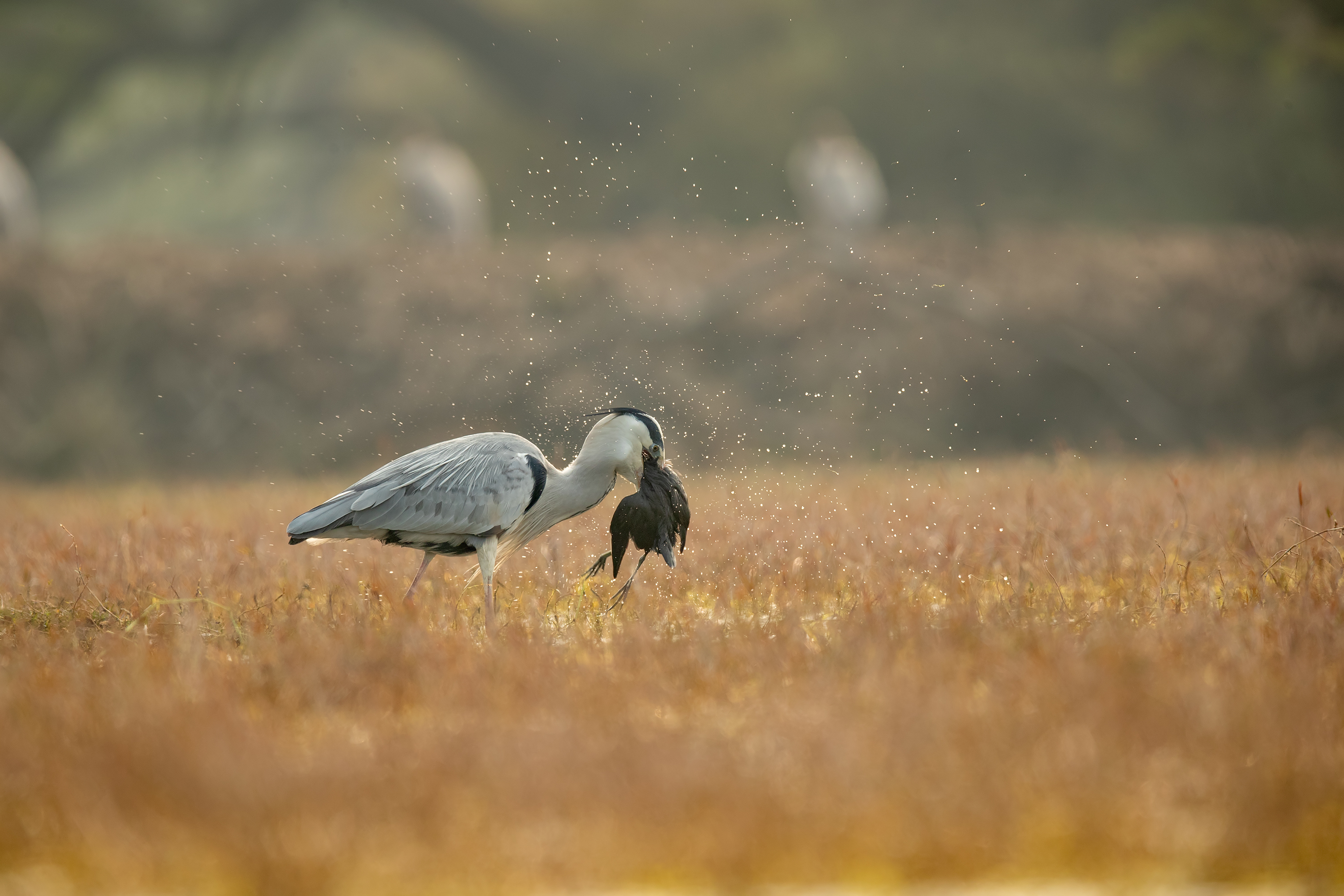 With a mysterious behavior.